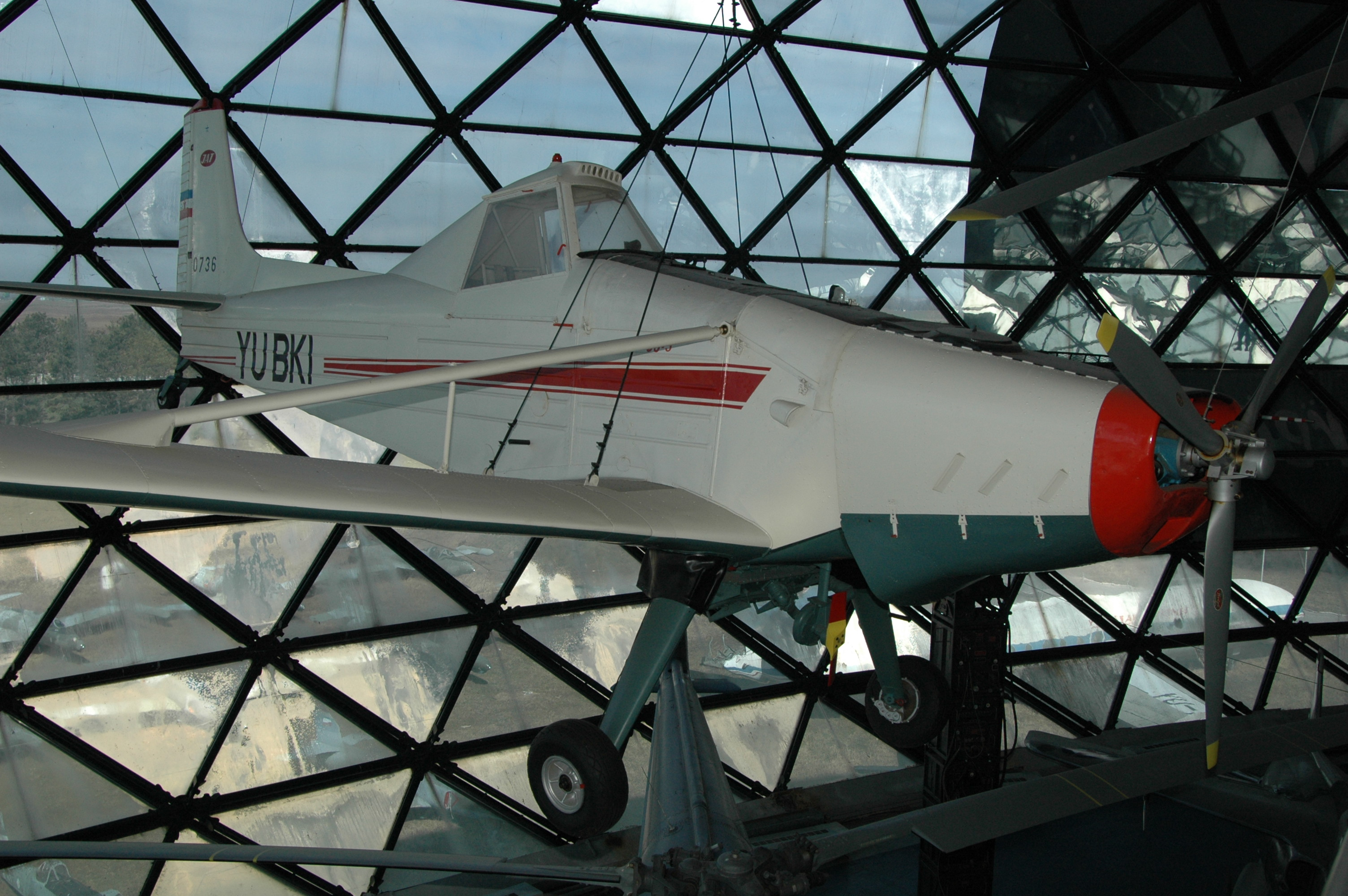 Utva 65S Privrednik